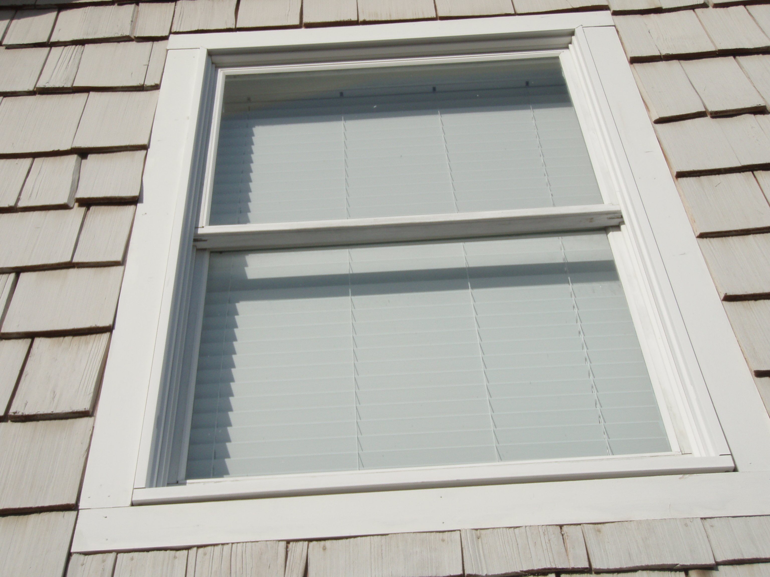 Double hung window